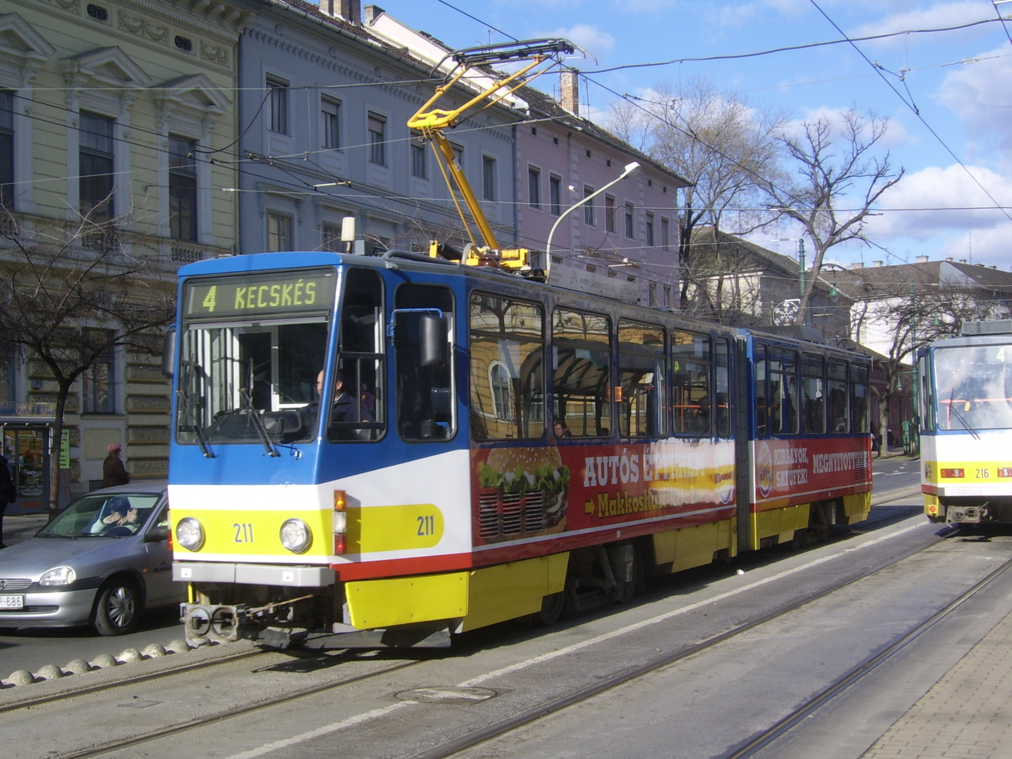 Szeged tram line 4, Szeged